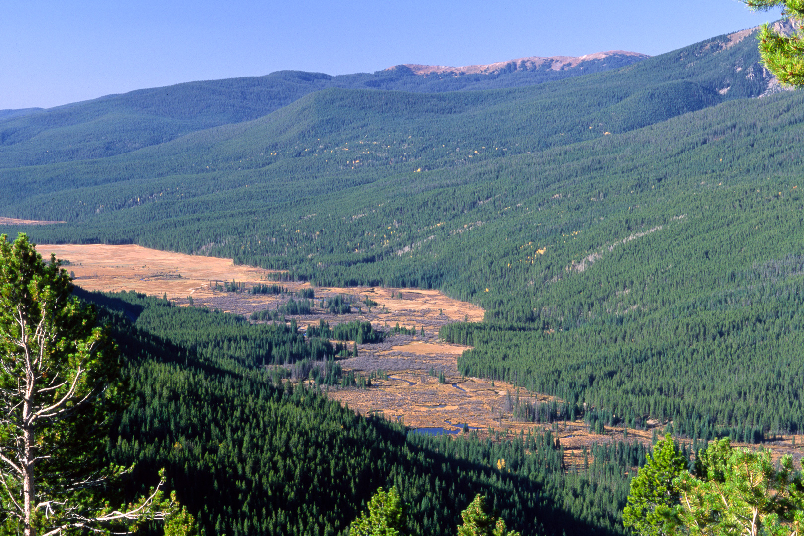 Kawuneeche Valley, Rocky Mountains, Colorado River, USA